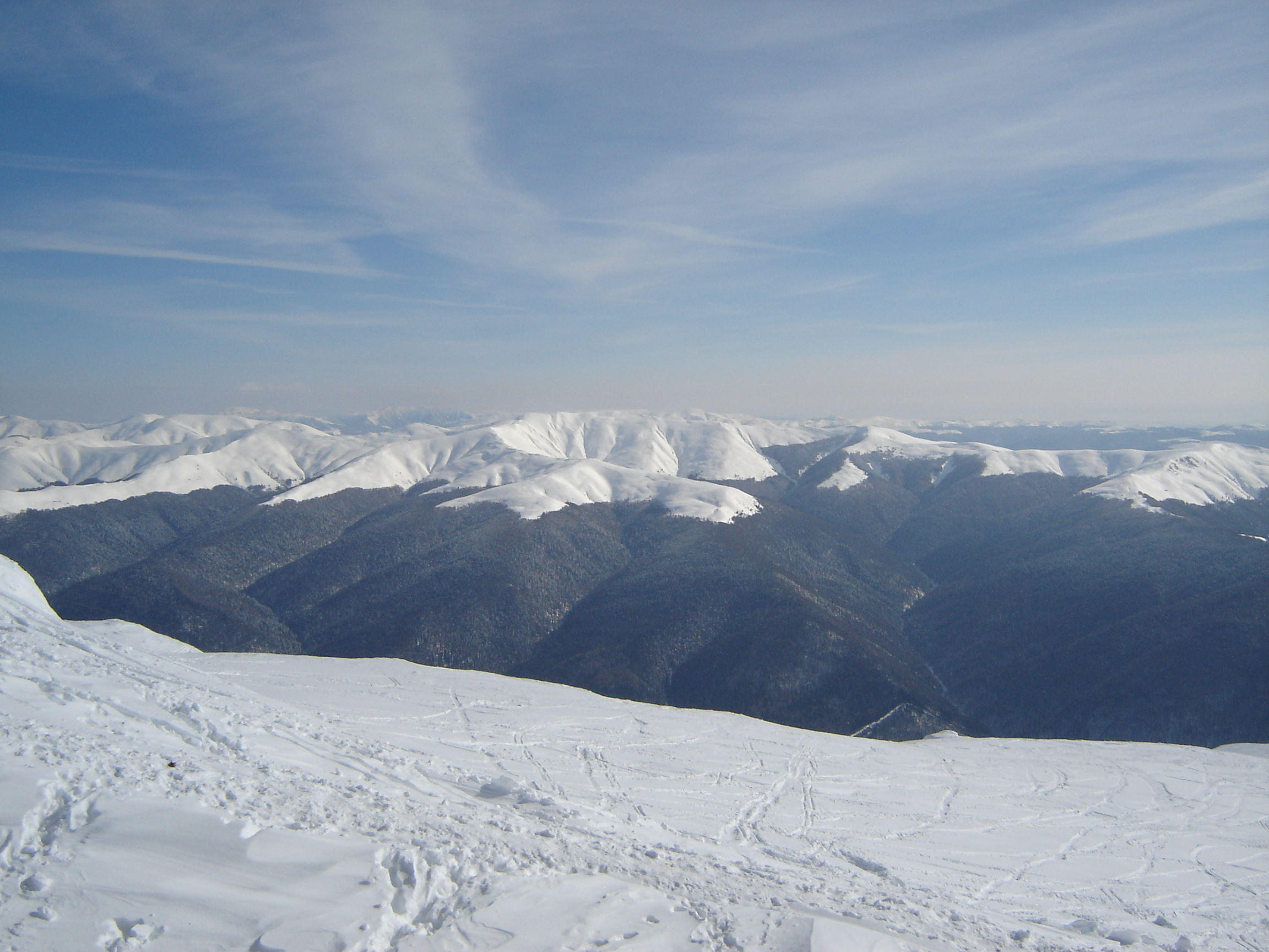 View of the Baiului Mountains, Eastern Carpathians, Romania